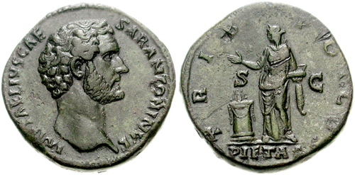 Antoninus Pius. As Caesar, AD 138. Æ Sestertius (30mm, 24.56 g, 6h). Rome mint. Struck 25 February-10 July AD 138. Bare head right / Pietas standing facing, head left, holding incense box in left hand and dropping incense with right hand over lighted altar. RIC II 1083a (Hadrian); Banti 270. Good VF, dark green patina. Rare.